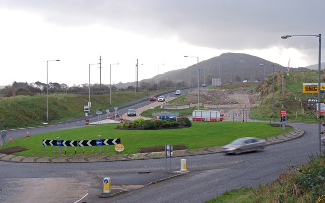 E01: roadworks at the Cloghouge roundabout on the A1 road, Newry, Northern Ireland.